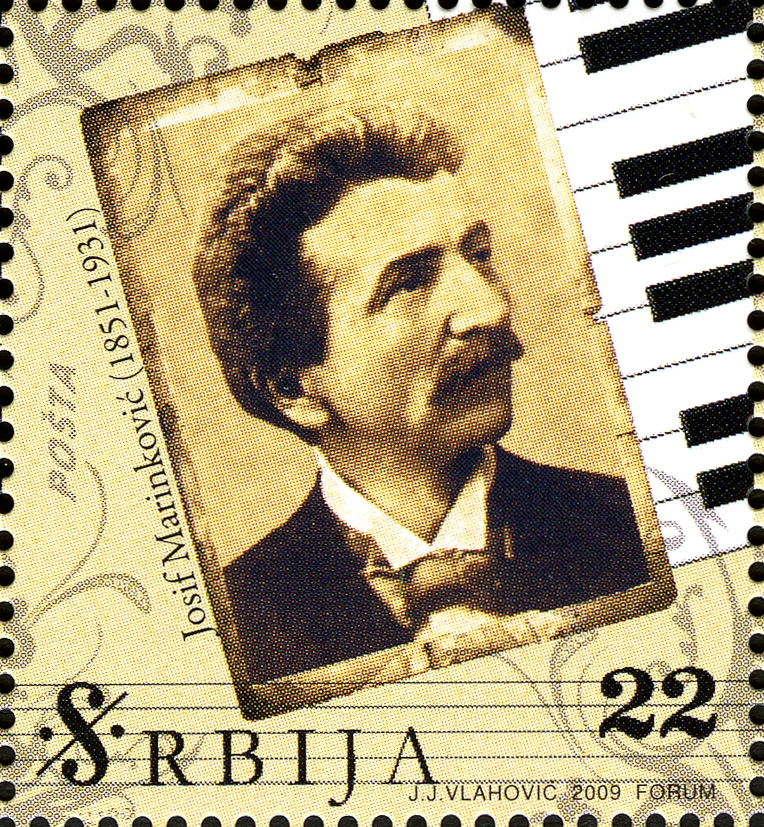 Great Personalities of Serbian Classical Music - Josif Marinkovic (1851-1931)